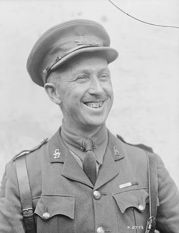 Major Georges P. Vanier of the 22nd Battalion. He became Canada's 19th Governor General, serving from 1959 to 1967.